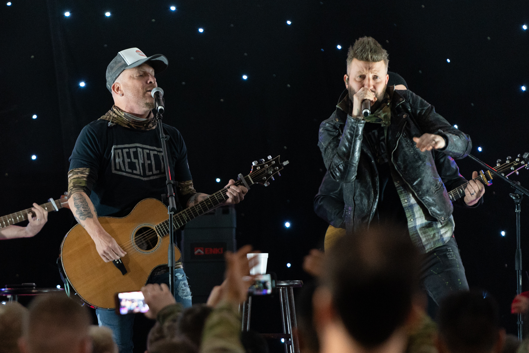 Country music band LoCash performing at Mihail Kognalniceanu Air Base, Romania, as part of the Chairman's USO New Year's Tour 2020, on Jan. 7, 2020. (DoD Photo by U.S. Army Sgt. James K. McCann)